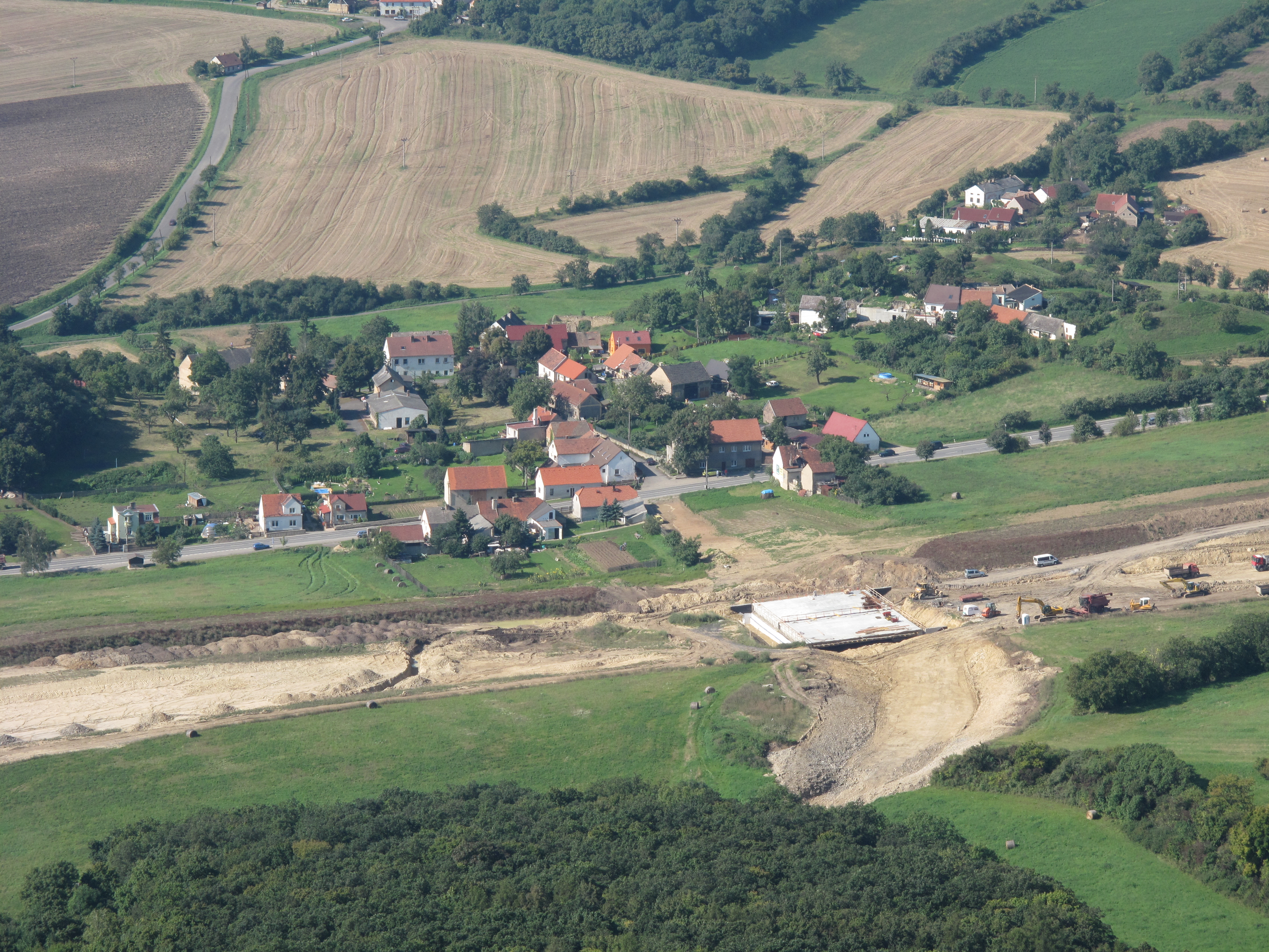 View from Lovoš Hill, Litoměřice District, Czech Republic.